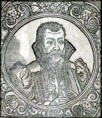 Johannes Rosa (1532-1571) German historian, moral philosopher and theologian of Lutheran